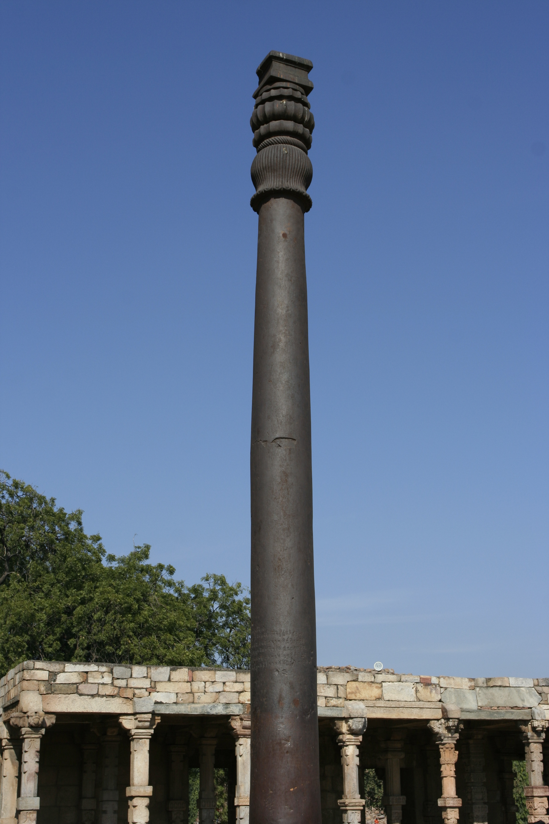 Iron Pillar, built during the reign of Ashoka the Great,at the Qutub Minar in New Delhi, India